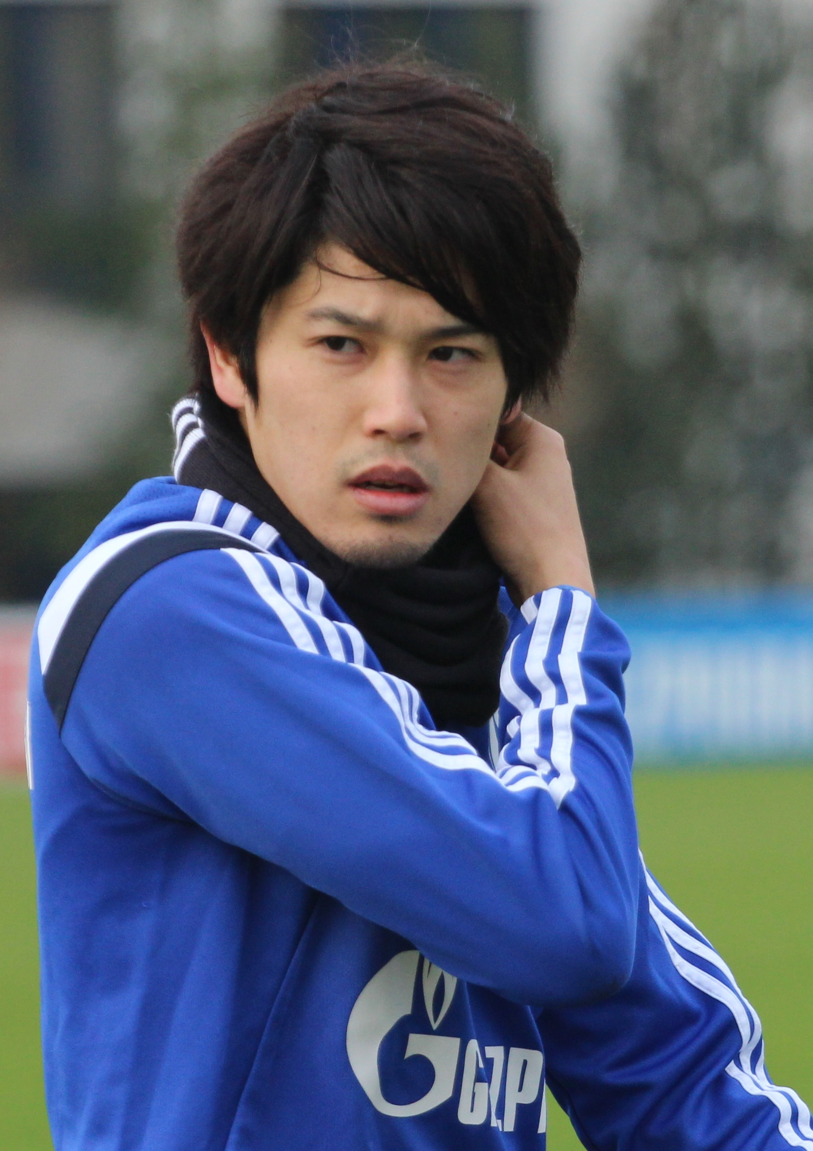 Atsuto Uchida at a Schalke 04 training on 19 January 2015.